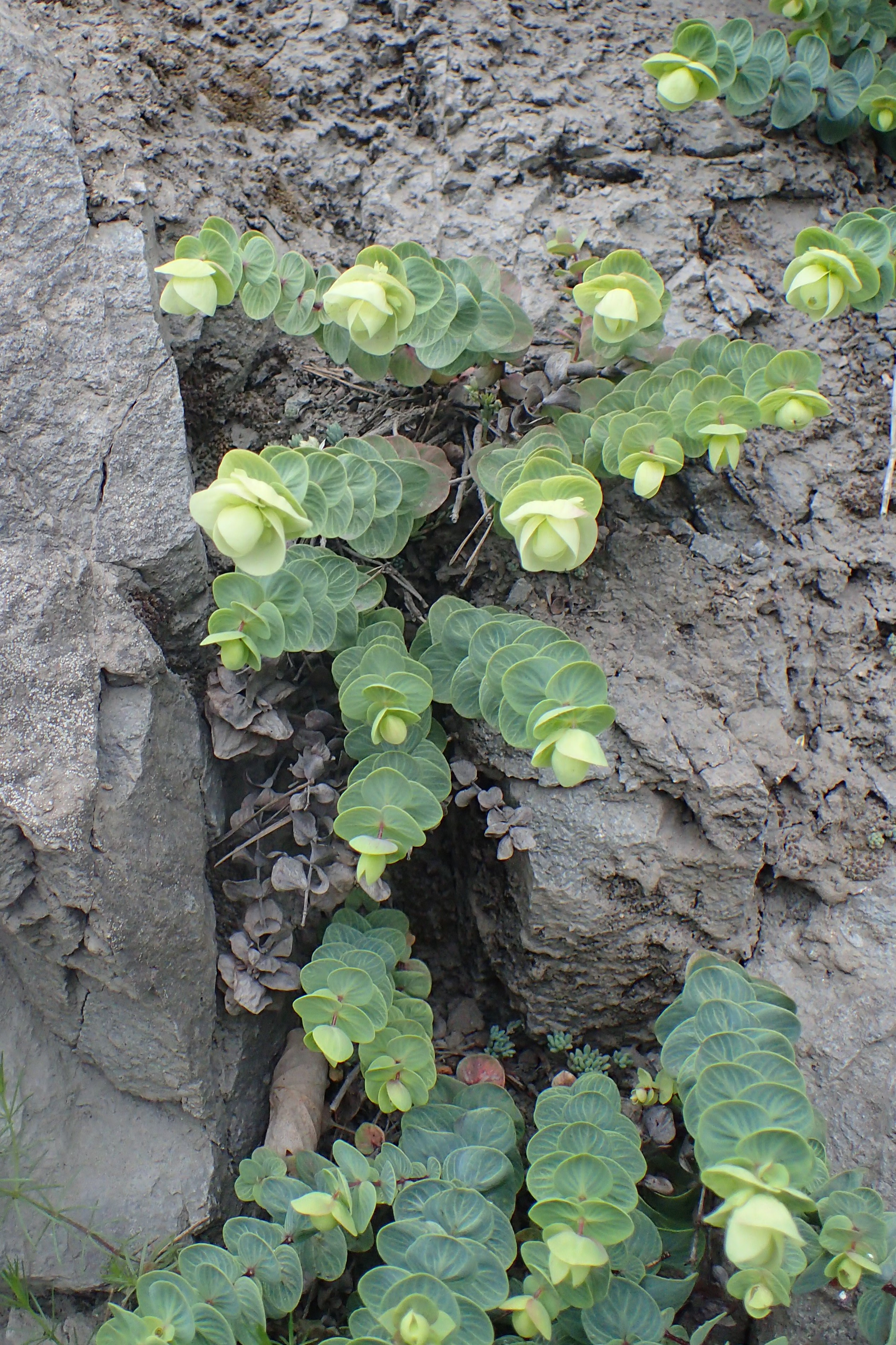 Origanum rotundifolium in Khulo (Georgia)